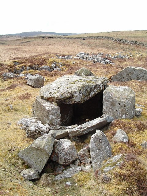 'Caves' of Kilhern A short boggy detour from the Southern Uplands Way (signposted)brings you to a small area of raised ground on which are situated six neolithic chambered cairns. Described as the 'caves' of Kilhern on Ordnance Survey maps, this is the best preserved. They are estimated at between 2000-3000 years old.